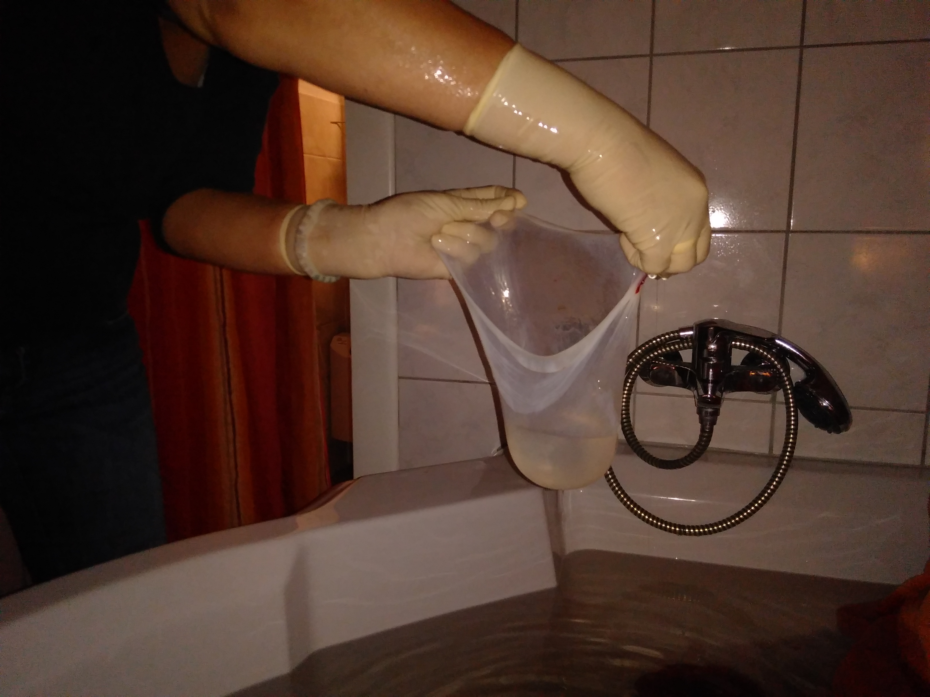 Amniotic sac of a baby that was born "en caul".